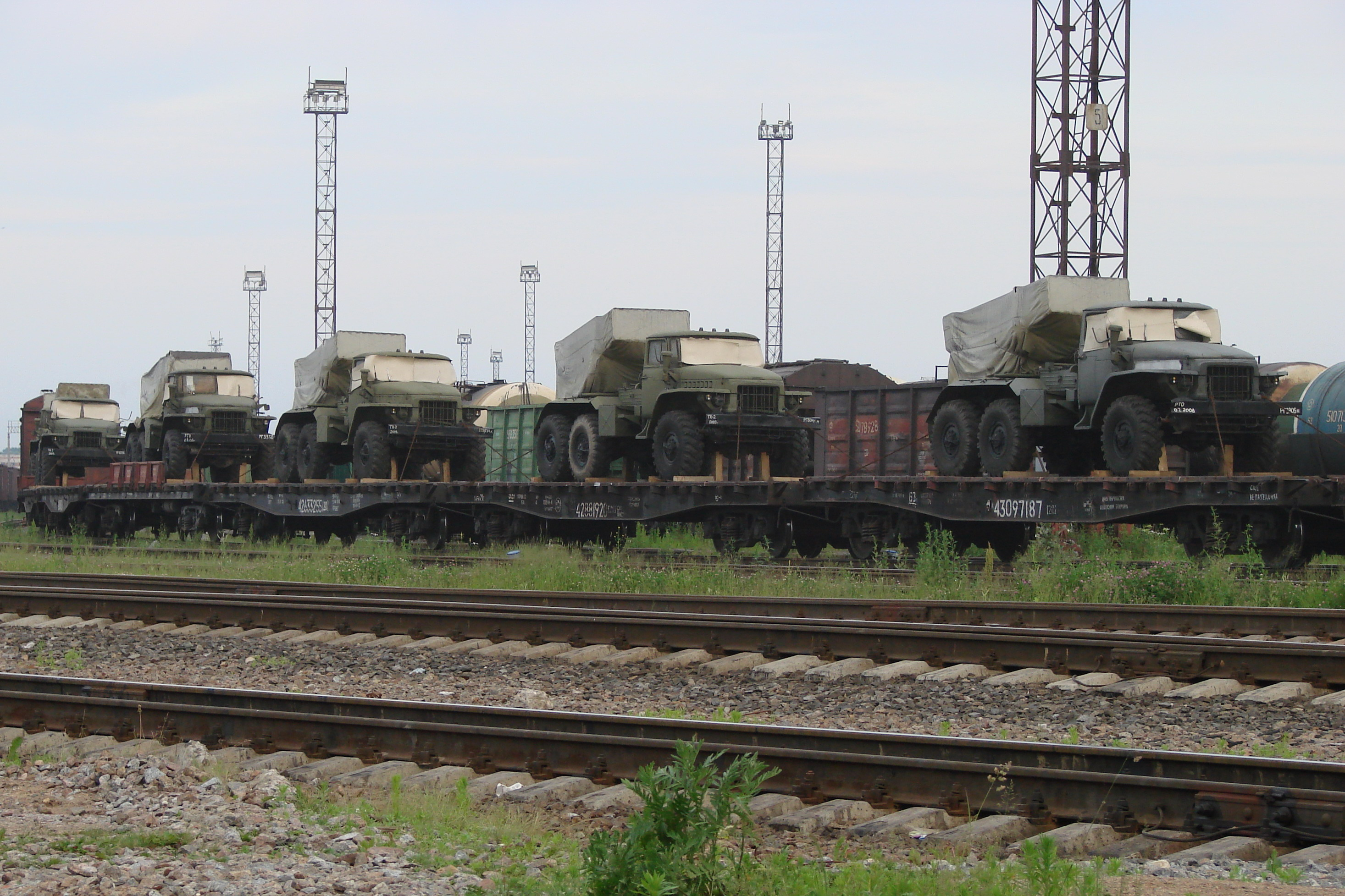 Russia, transporting multiple rocket launcher BM-21 Grad by railroad